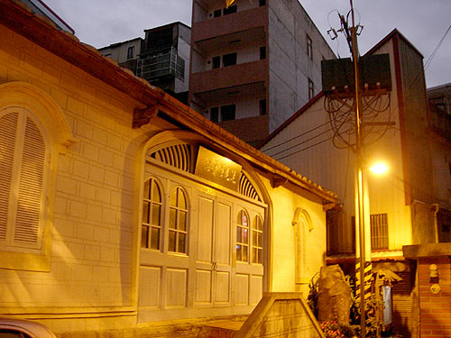 Mackay Mission Hospital